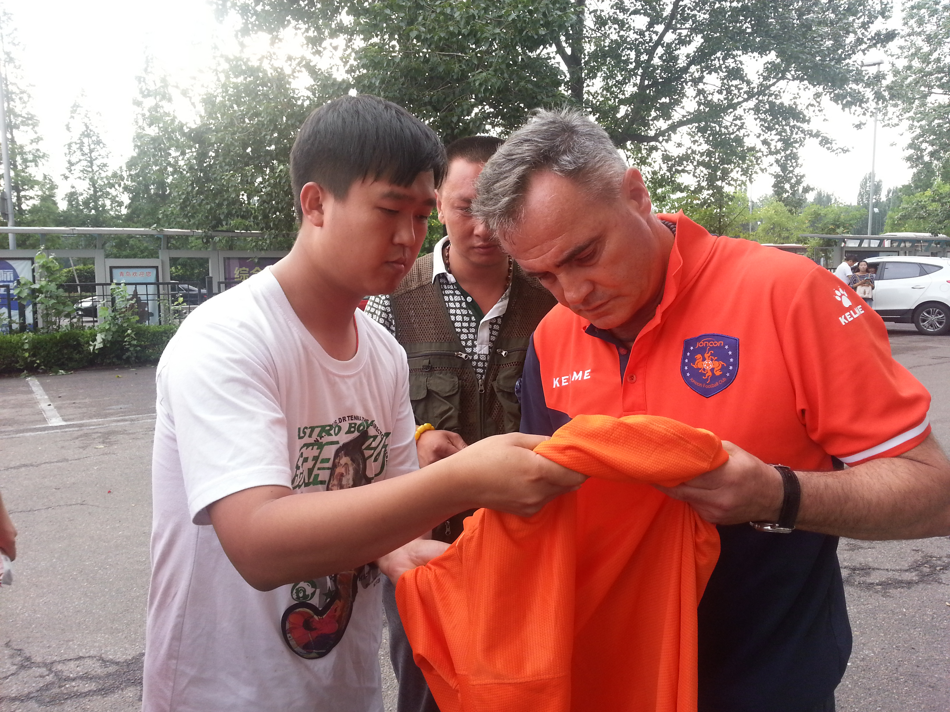 Slovenian manager Tomaž Kavčič signing autographs after the derby win with Qingdao Jonoon against Qingdao Hainiu